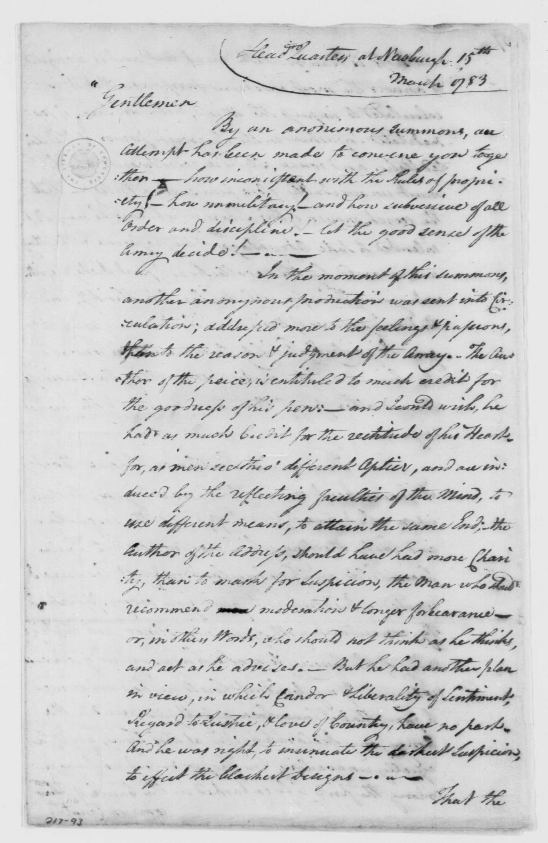 The Newburgh Address, given by George Washington on March 15, 1783.